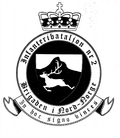 Old army badge of the Norwegian Infantry Battalion nr. 2. This insignia is taken from an old Norwegian Brigade magazine.